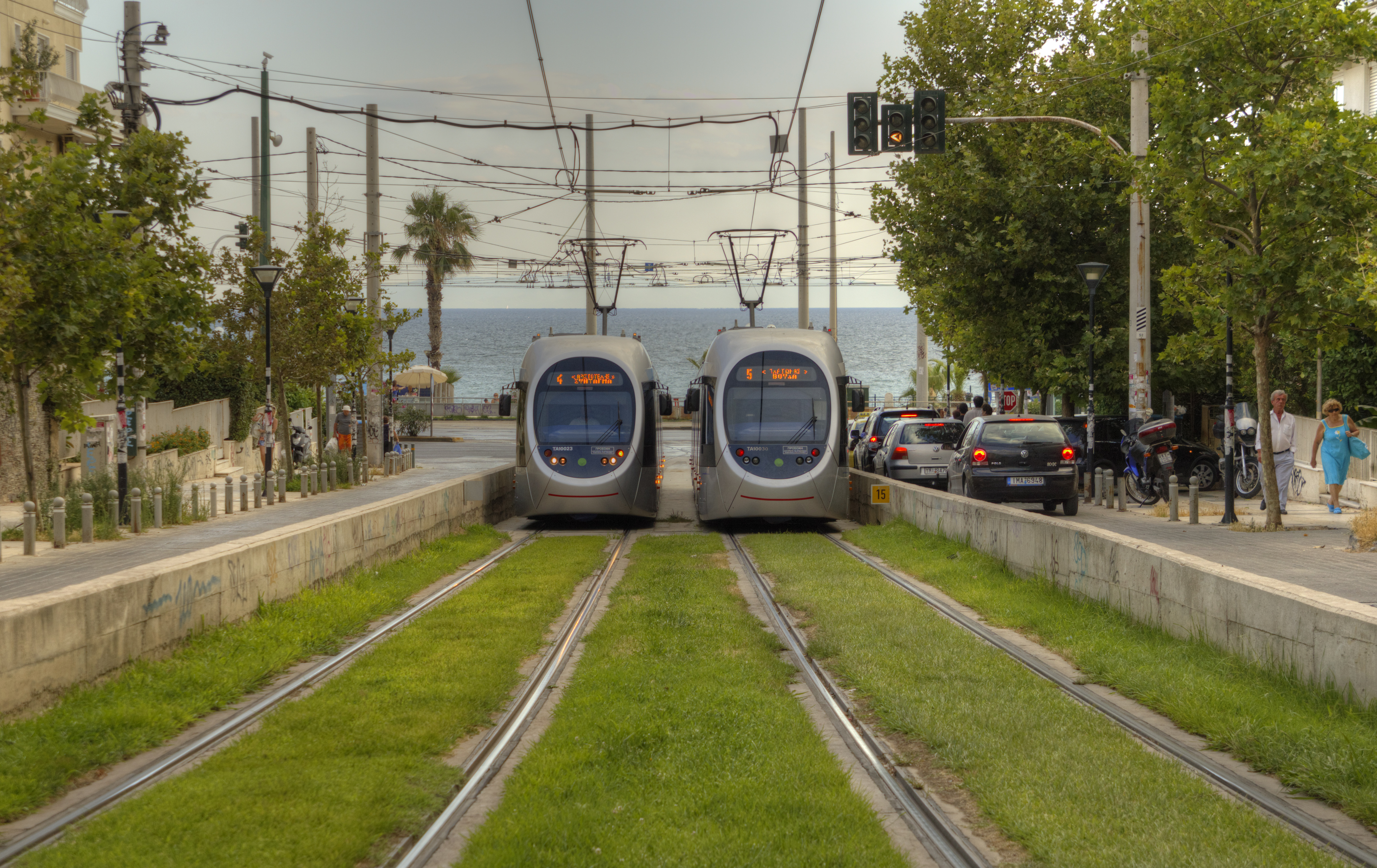 Two trams near the stop «Mouson» in Paleo Faliro (Attica, Greece). The left one is approaching the stop, the right one has just left it.